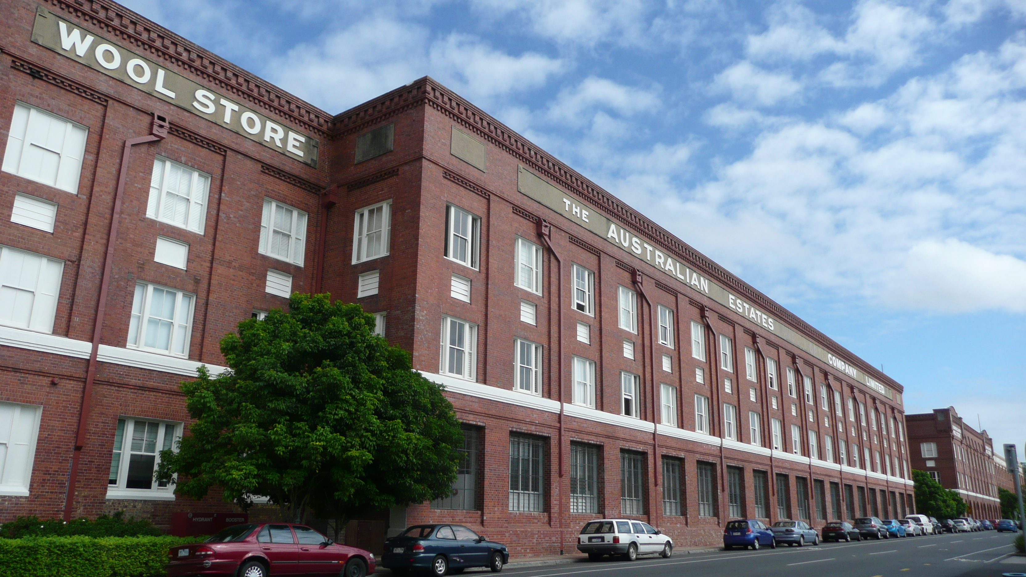 Australian Estates Co Wool Store